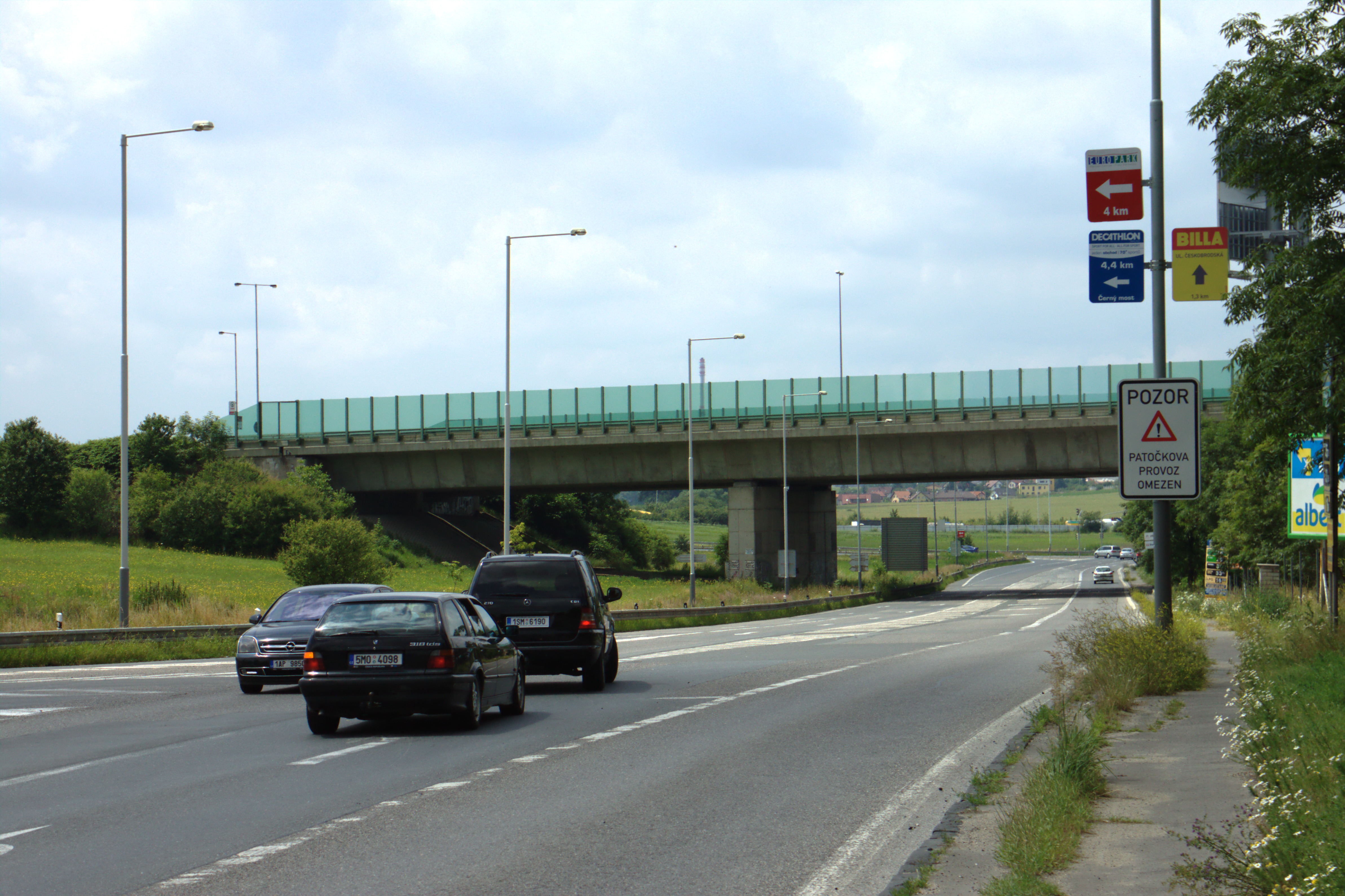 A Běchovice-Dolní Počernice section of Českobrodská Street in Prague, CZ